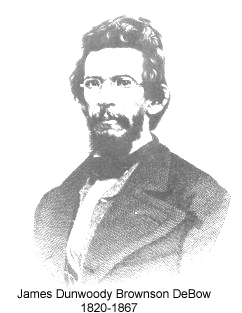 James Dunwoody Brownson DeBow (1820-February 27, 1867)